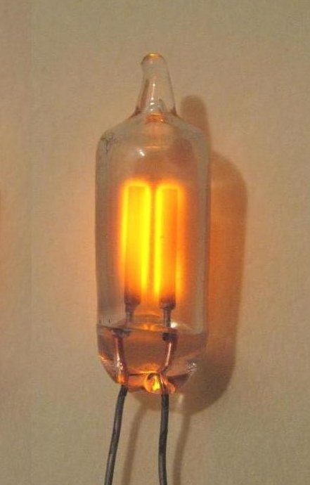 Small neon lamp, type NE2, 1.9 cm (0.75 in) long, powered by AC. It consists of a glass bulb containing neon gas at low pressure, with two wire electrodes in it. When the voltage across the lamp exceeds about 70 volts the gas ionizes and the lamp turns on.